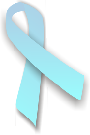 Light blue ribbon - symbol of International No Diet Day